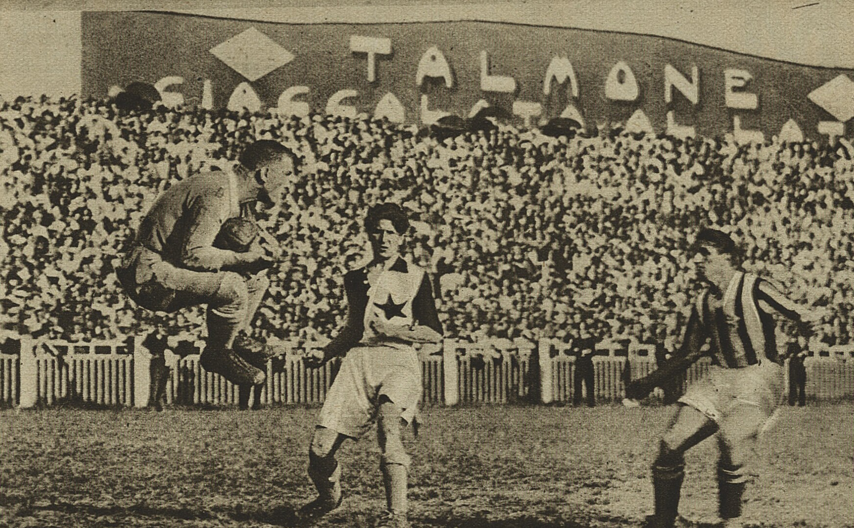 Football match Juventus-Slavia Prague in 1932. (Players in photo: Plánička-Černický-Vecchina).